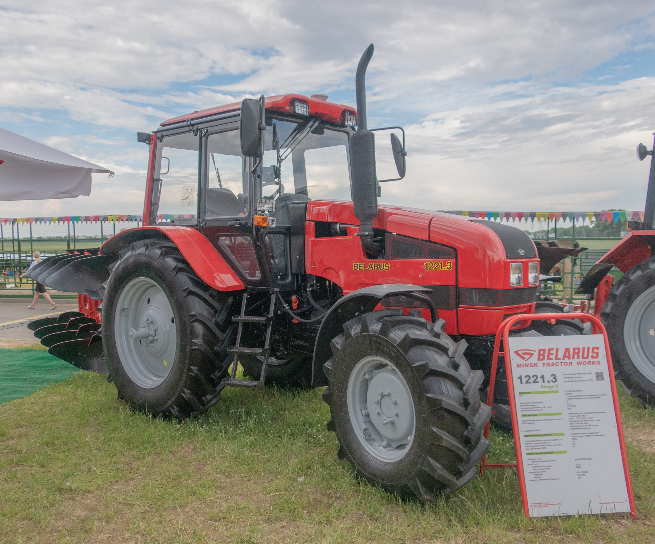 Belarus MTZ-1221.3 tractor. Photo taken at Belagro-2019 exhibition (Minsk district, Belarus)